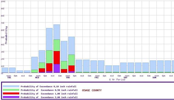 Graph showing probabilistic QPF for certain time frames in Osage county, OK